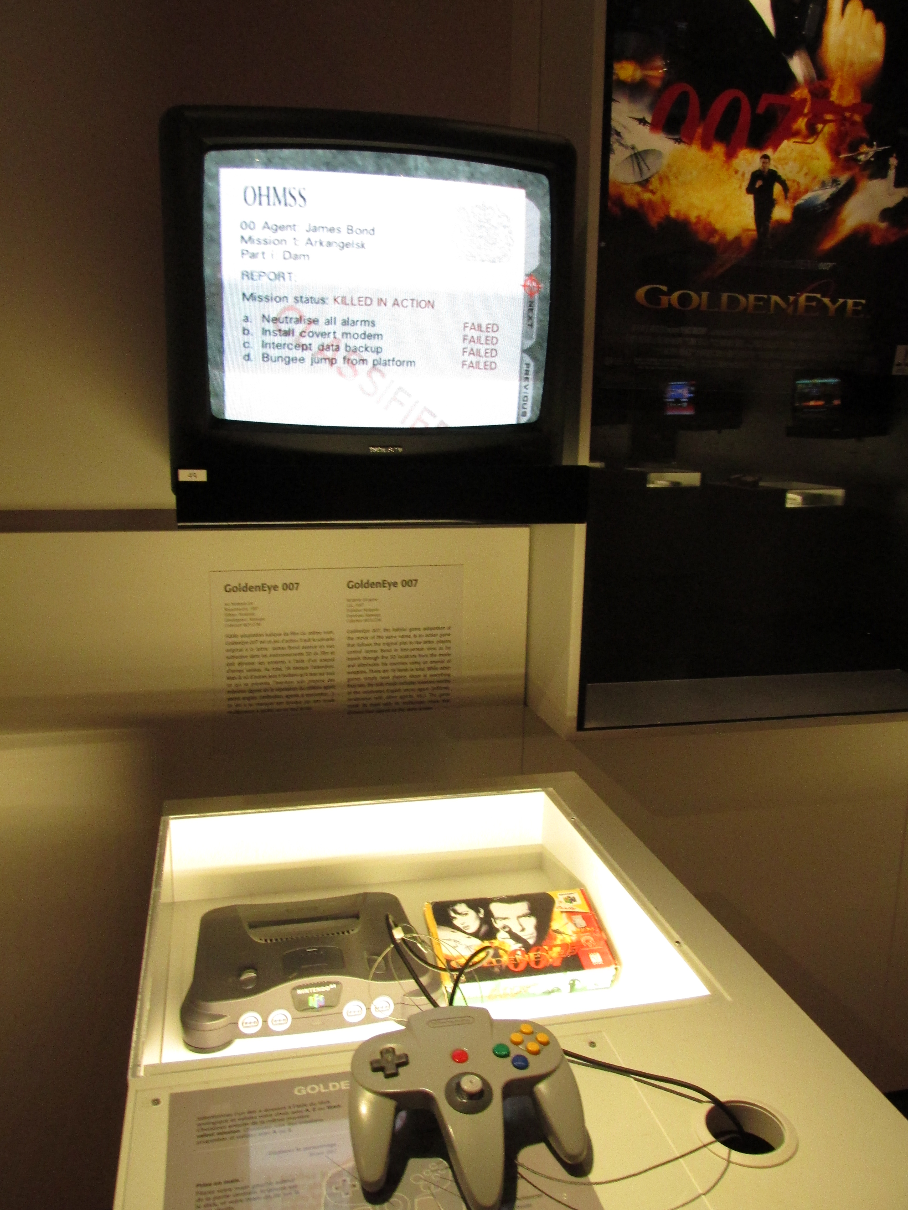 A screen showing GoldenEye 007 (1997 N64 version) at the Musée de la civilisation in Quebec City, Canada, at a Ubisoft exhibition on video game history. Note the absence of a cartridge inside the console itself.